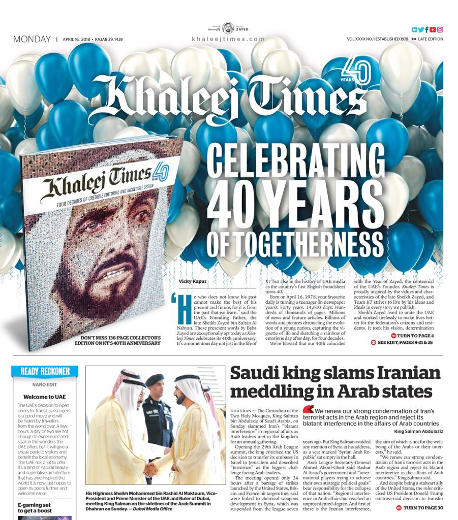 Khaleej Times is the first English newspaper to be launched in the UAE in 1978.